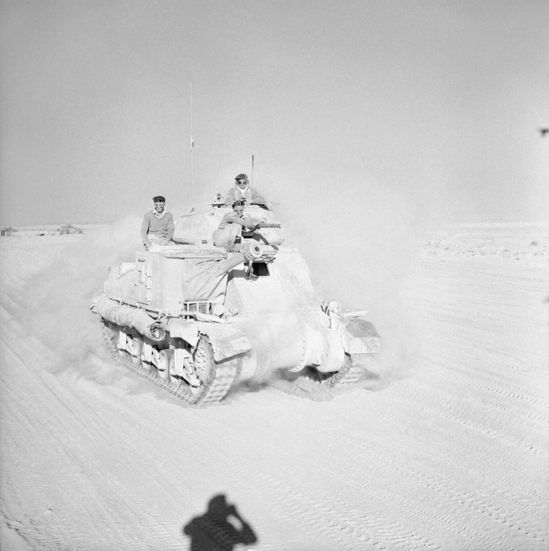 The British Army in North Africa 1942 A Grant tank moving up to the front in the Western Desert, 29 October 1942.